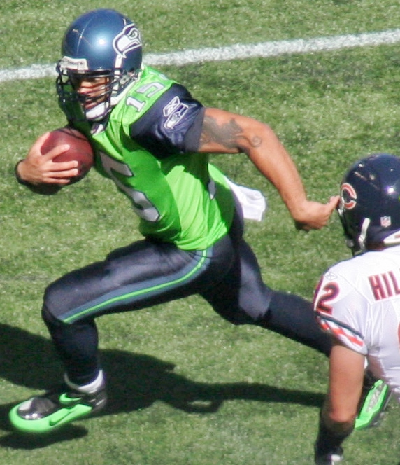 Seattle Seahawks quarterback Seneca Wallace runs with the ball in a 2009 game vs. the Chicago Bears.